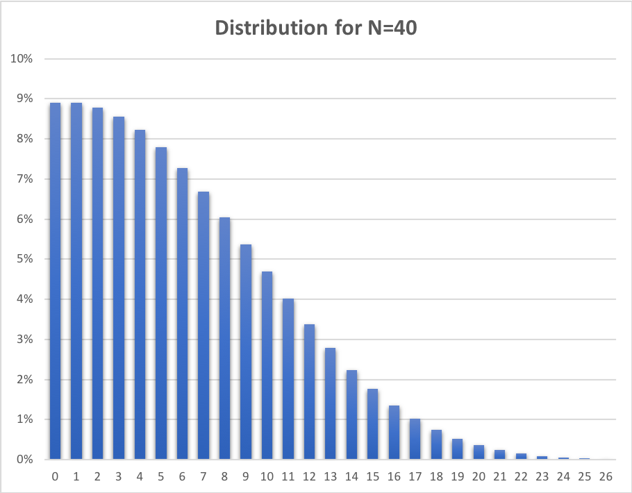 The distribution of the random variable k in the Banach matchbox problem with parameter N=40